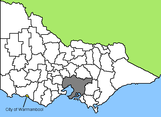 Map of Victoria/Australia, LGA of Warrnambool Shire highlighted